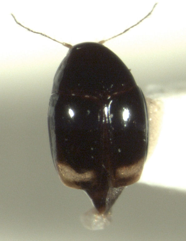 adult Scaphisoma funereum from New Zealand